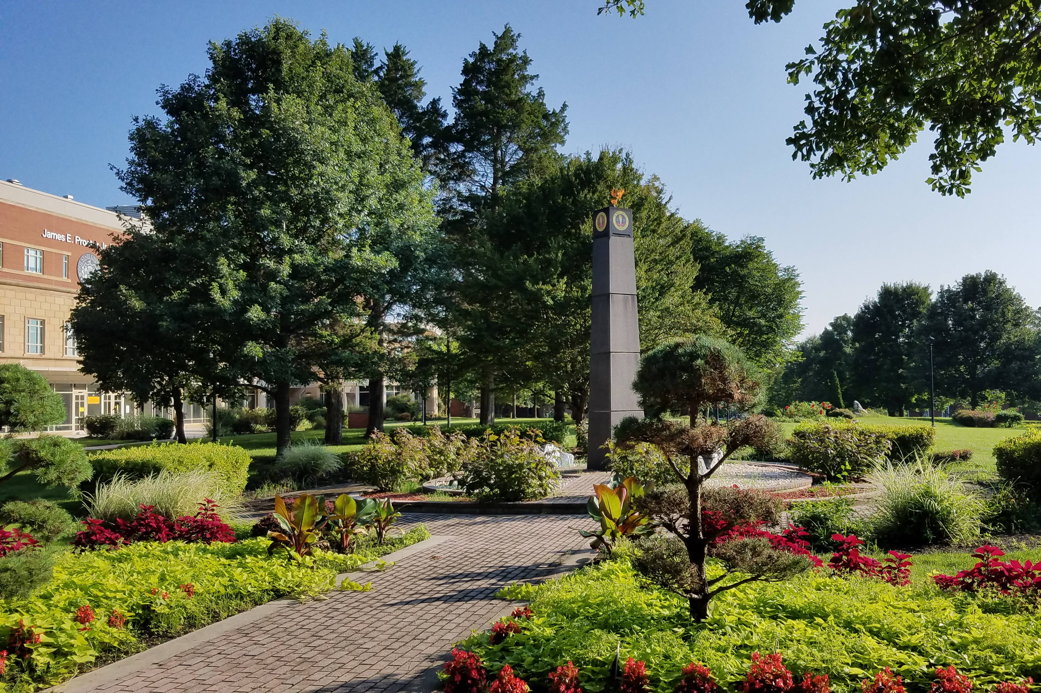 A photo of the torch on the campus of Bowie State University